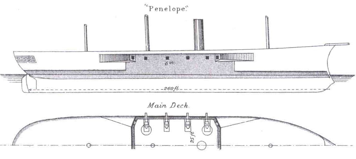 Diagrams depicting right elevation and plan views of British ironclad battleship HMS Penelope.